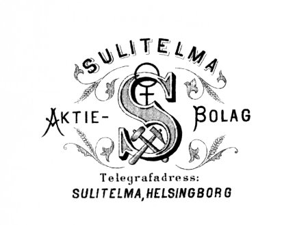 Sulitjelma mining companys logo in 1894, the firm has later closed down.